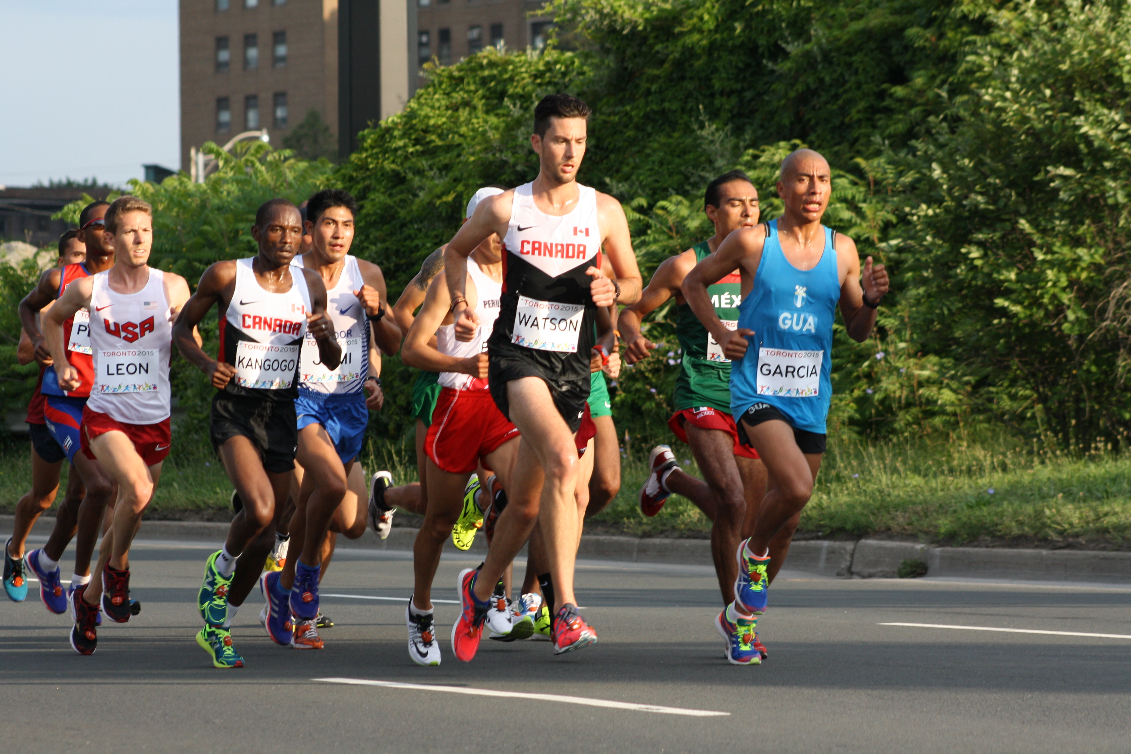 Runners compete at the 2015 Pan American Games marathon.